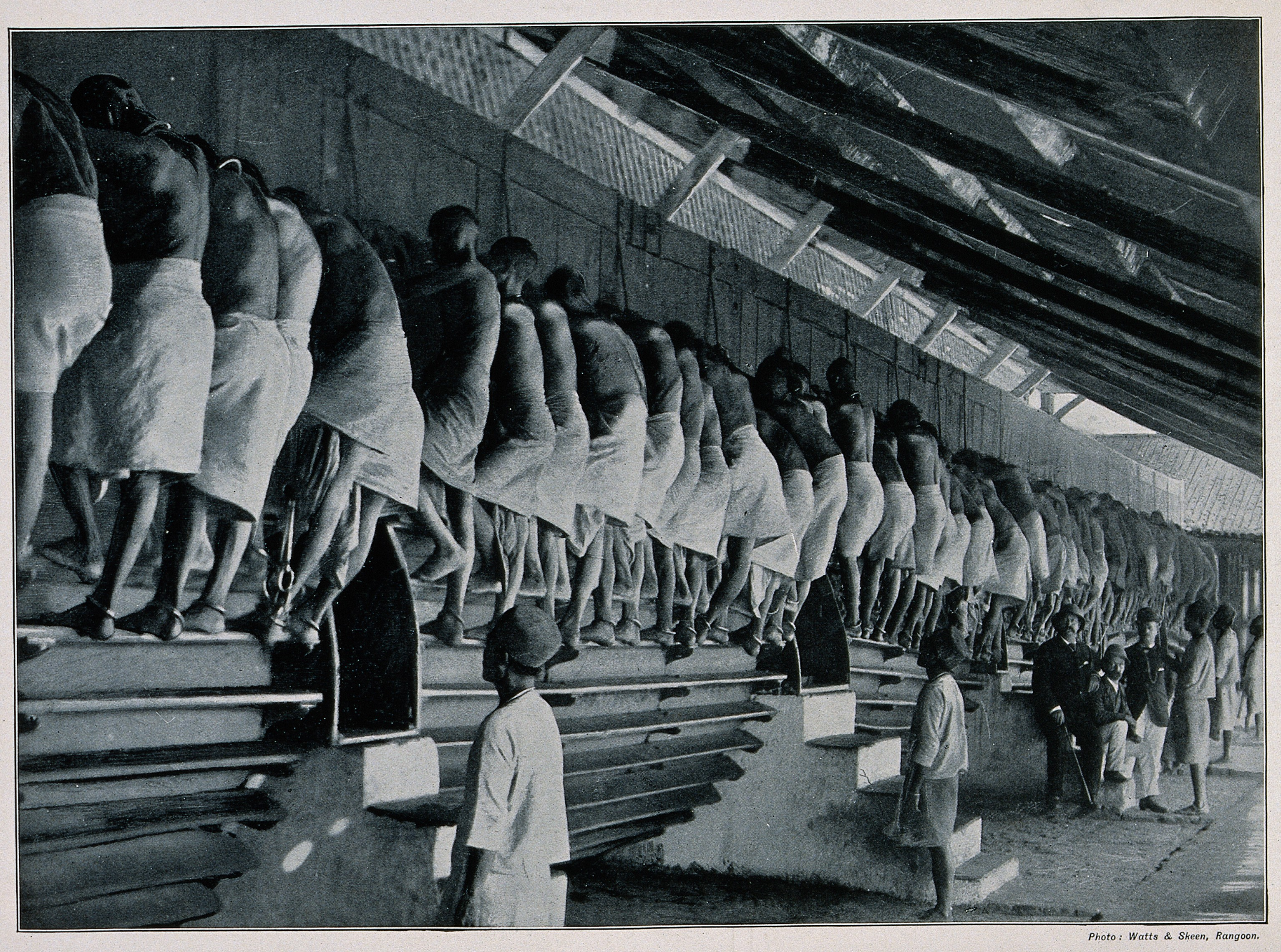 Rangoon, Burma: prisoners working a treadmill in jail. Photograph by Watts & Skeen, 189-. Credit: Wellcome Collection. CC BY Note: Inmates at Burma's Rangoon Gaol, run by the British, working the prison's treadmill. Iconographic Collections